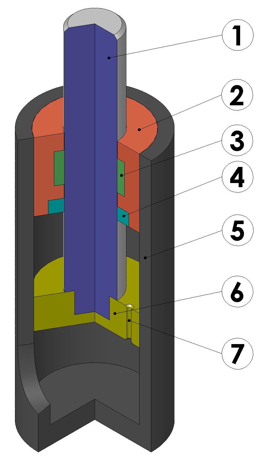 3D-View of a very simplified gas spring with sectional view. Plunger rod Head end Guide bushing Seal Cylinder Piston Restriction